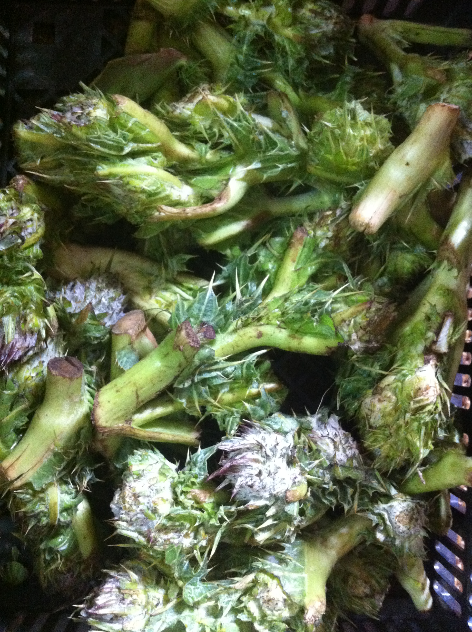 Spiny Gundelia.